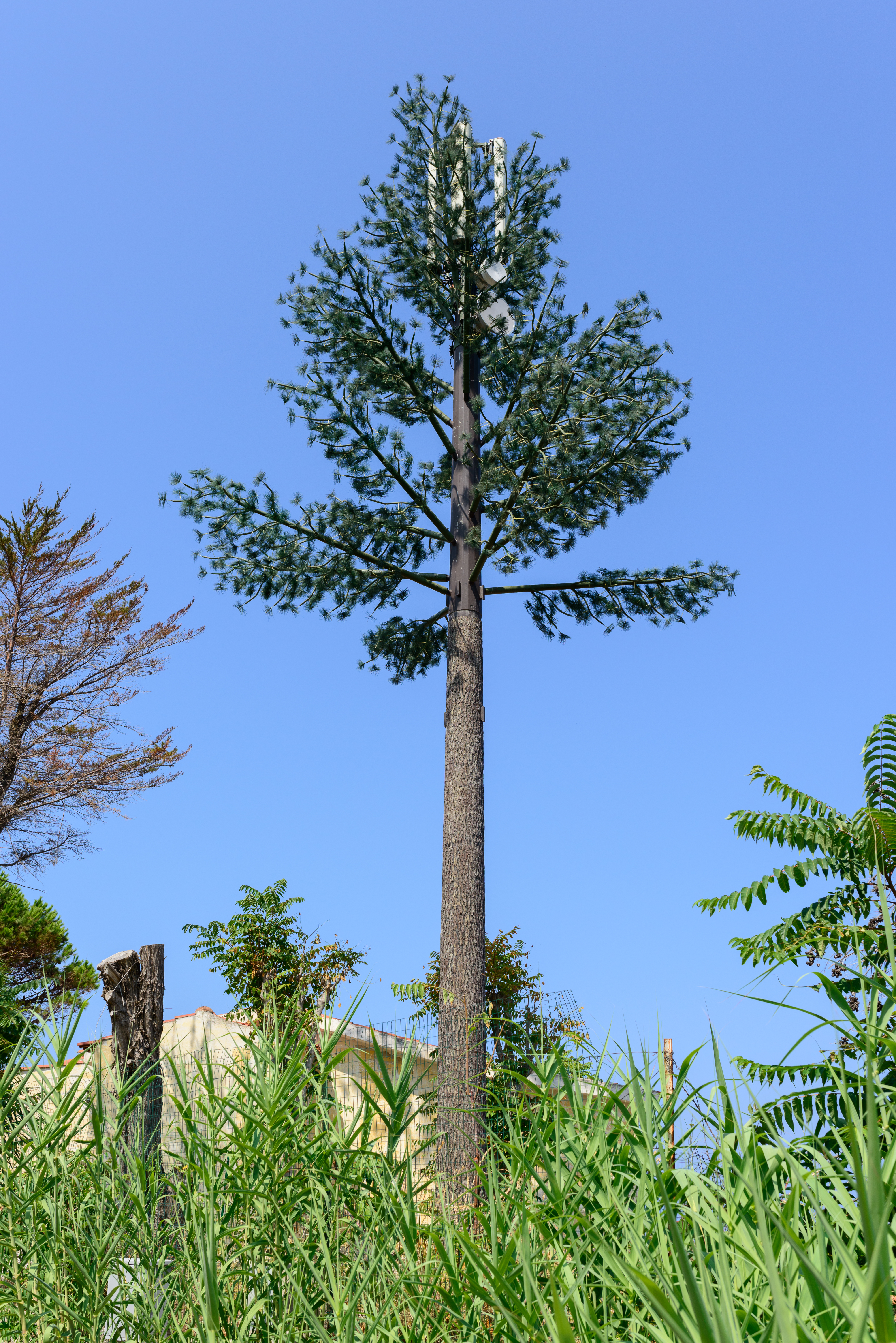 Artificial tree to hide a mobile transmitting station, Capo Vaticano, Calabria, Italy.